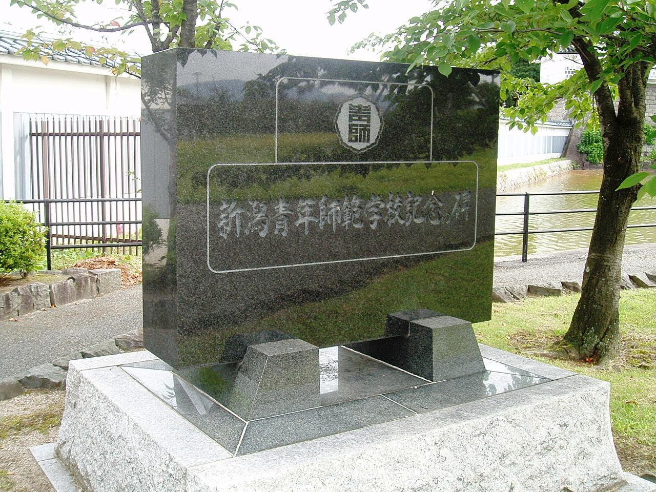 Memorial of Niigata Youth Normal School, one of the predecessors of Niigata University, located in Shibata, Niigata, Japan.